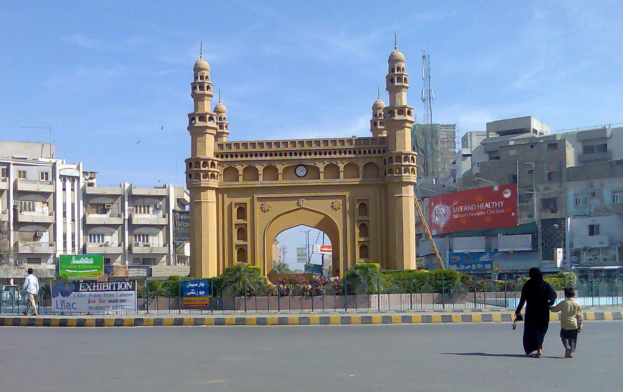 Replica of Charminar (Hyderabad, India) at Bahadurabad roundabout, Karachi, Pakistan.